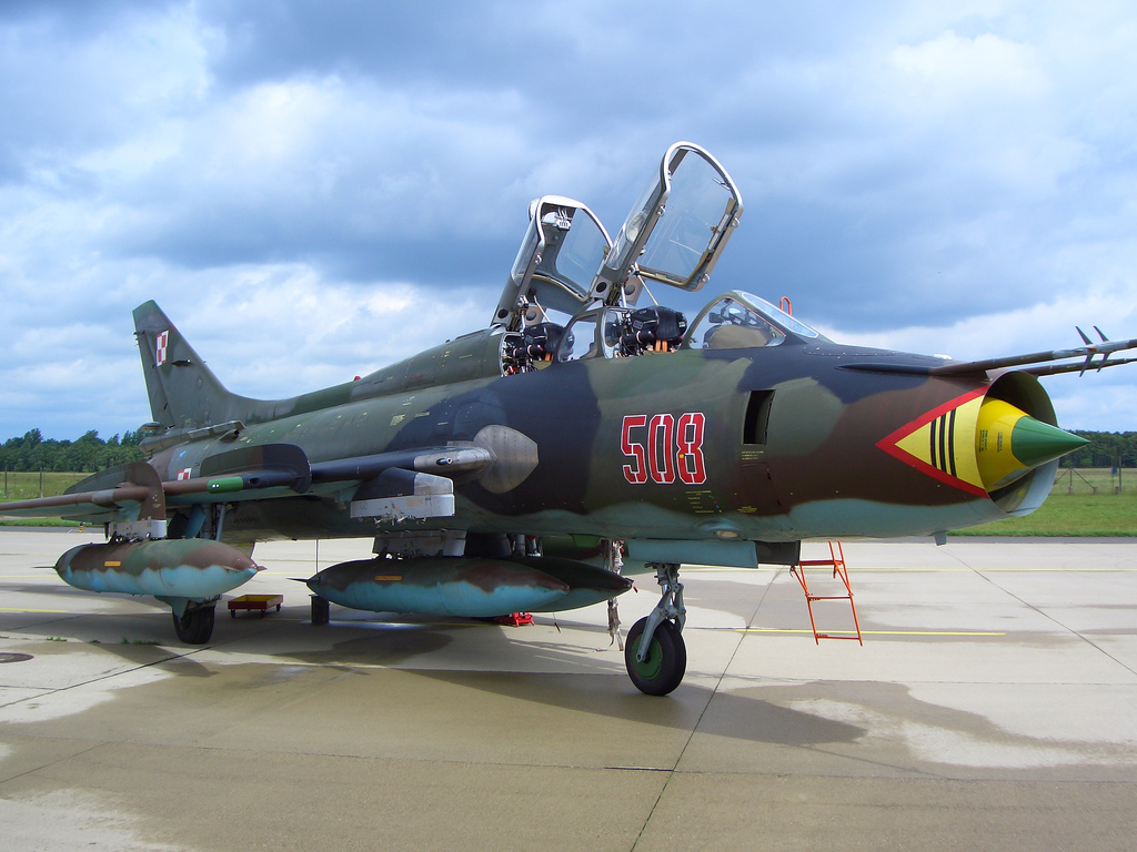 a Su-22UM3K Fitter of the Polish Air Force.